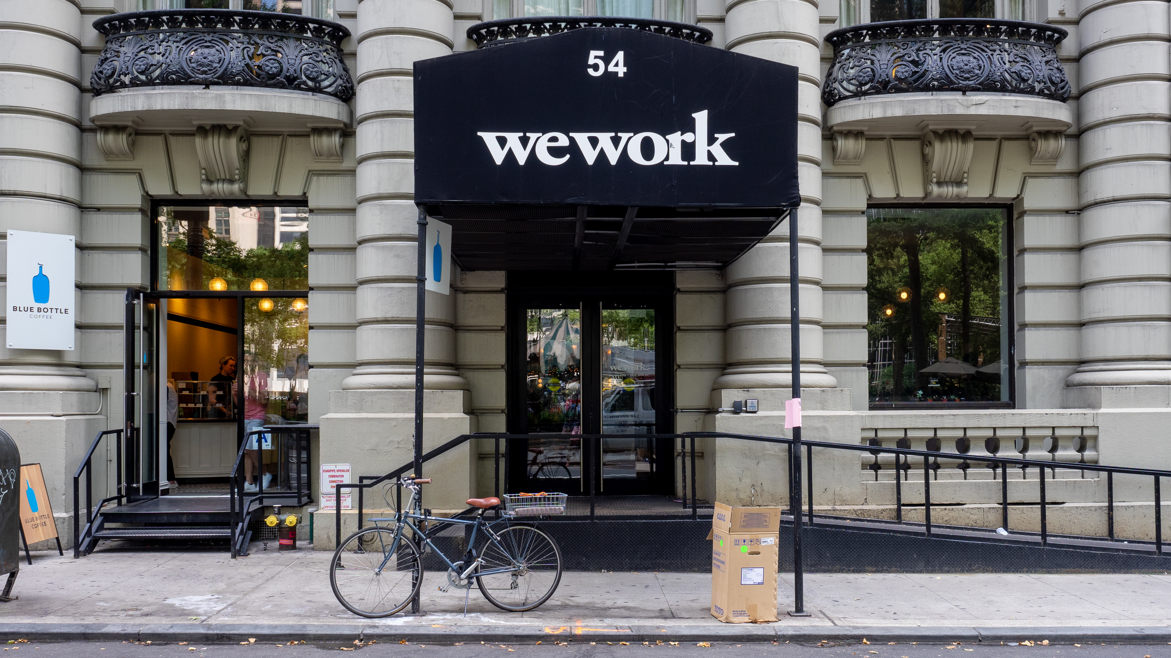 Midtown Manhattan, NYC